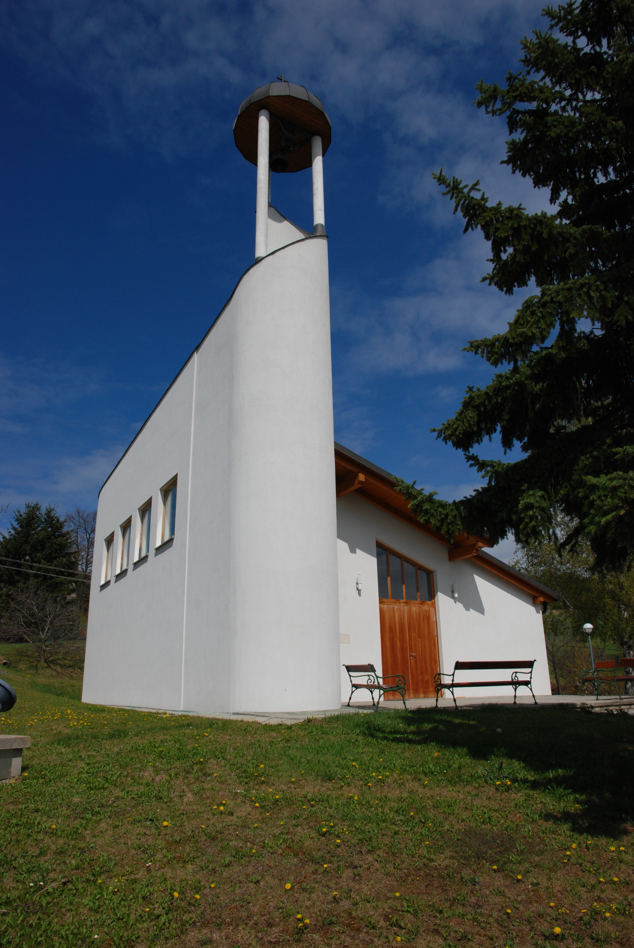 Kapelle Oberpodgoria